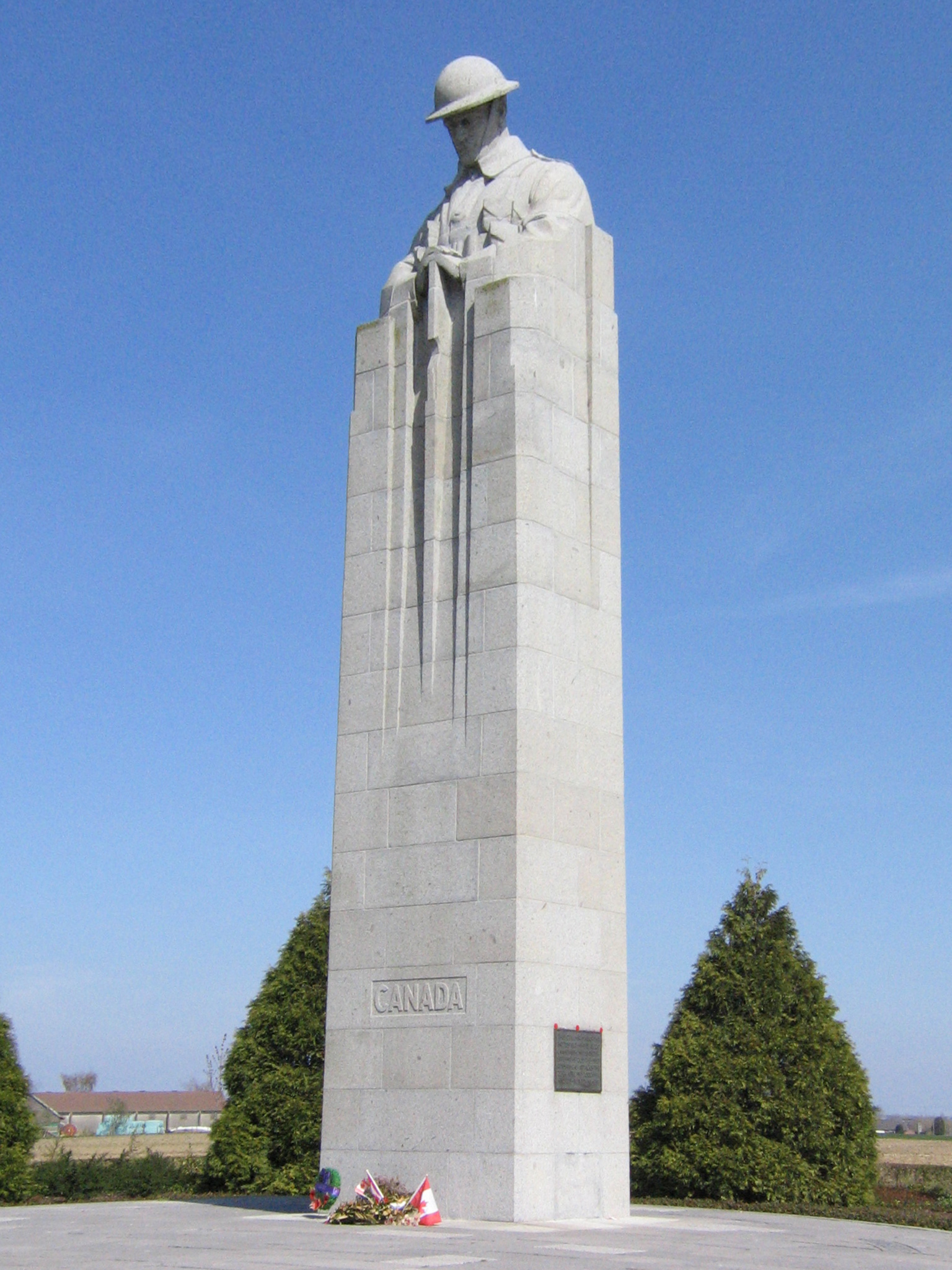 A image of the Saint Julien Memorial in Belgium I took in 2007 showing the front and sides of the memorial.